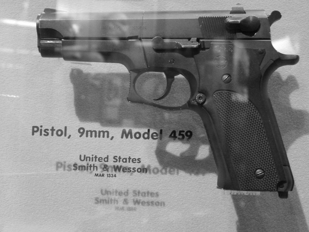 A Smith and Wesson 459 model found in the Small Arms Museum at Aberdeen Proving Ground. This model was involved in the XM9 Pistol trials